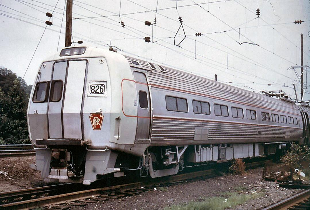 Budd Pennsylvania Railroad Metroliner multiple-unit car circa 1968. Operated: 1969-1971 as Penn Central Metroliner, 1971-1982 as Amtrak Metroliner; currently the Cab car is used for Amtrak's push-pull services on the Amtrak Keystone, the New Haven-Springfield Line Shuttle, and Amtrak California Service (when California Cars are not being used).